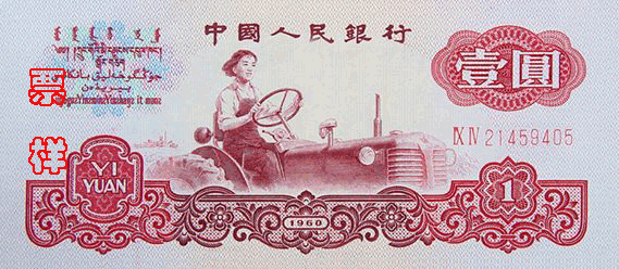 Third series of the renminbi 1yuan(sample)